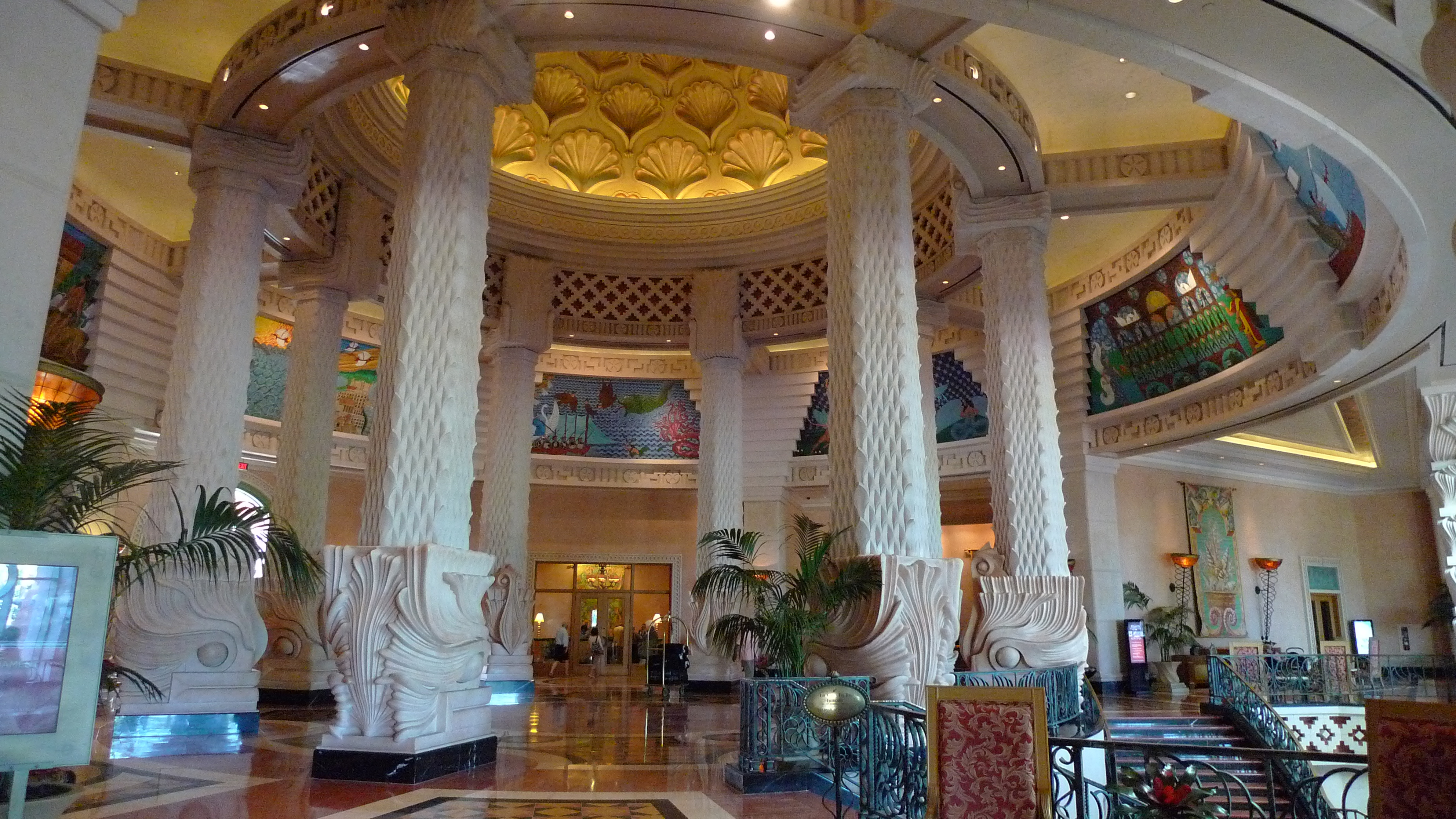 Lobby Atlantis Paradise Island photo D Ramey Logan